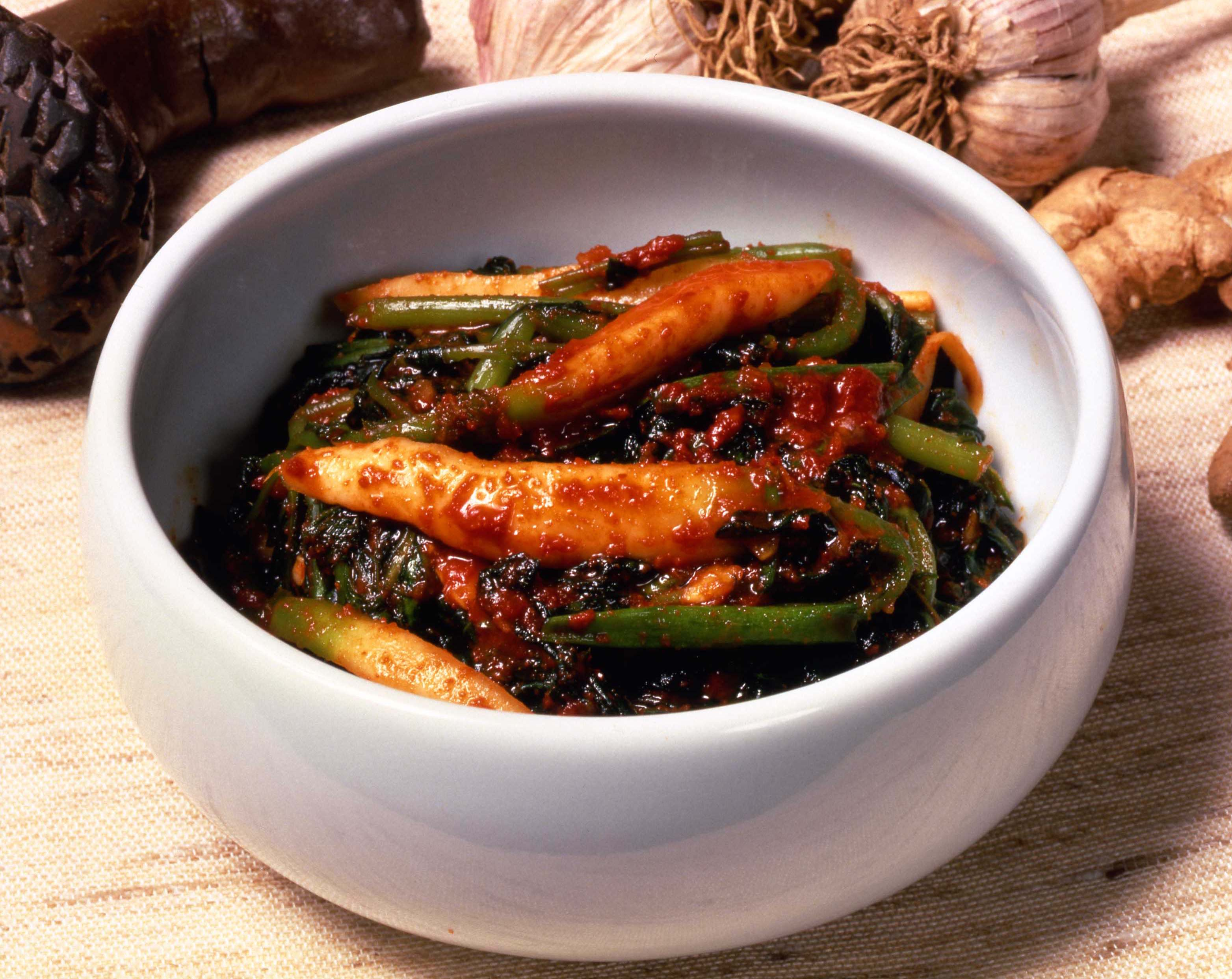 Radish kimchi